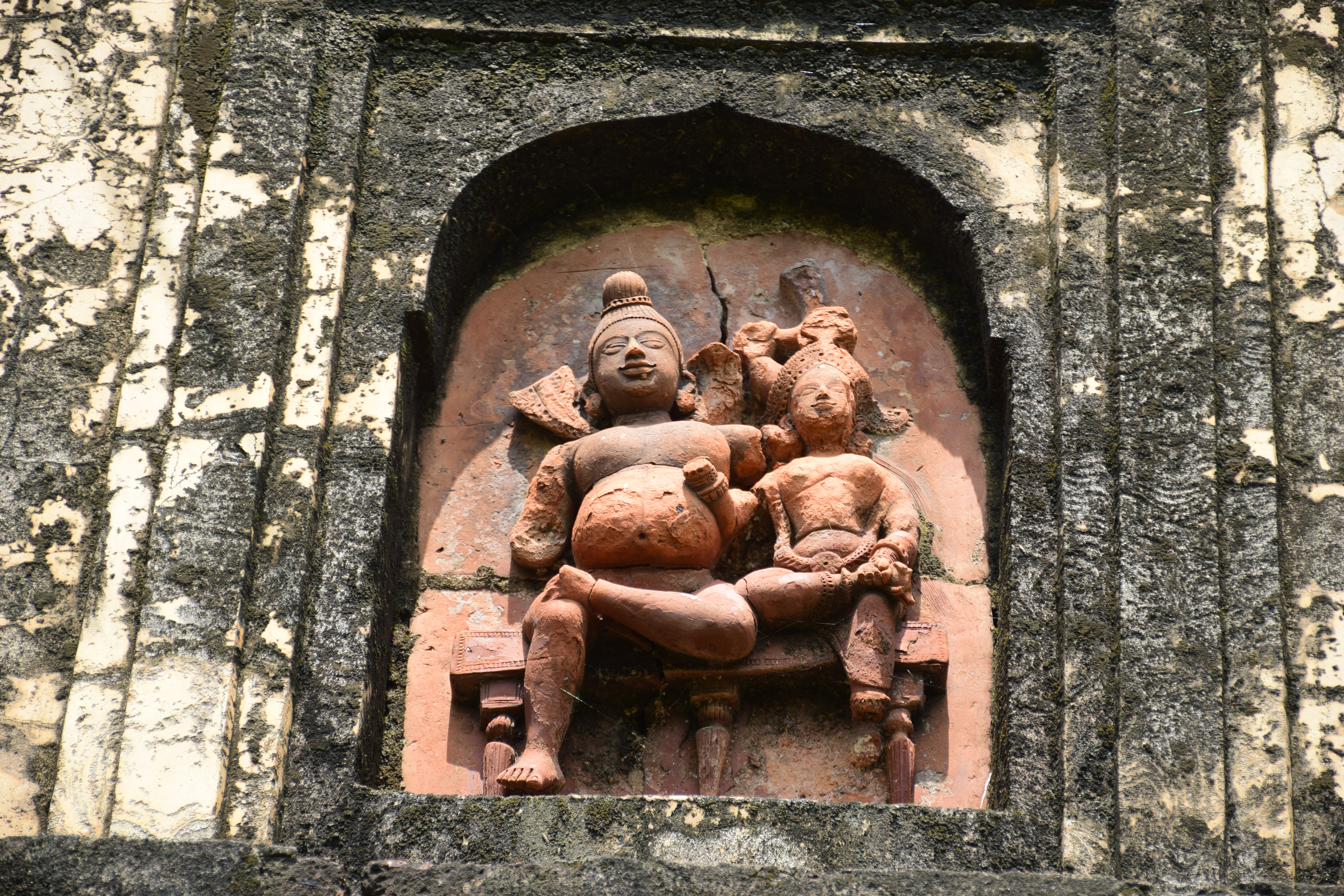 Deul temple terracotta plaques of Ghosal family at Patrasayar, Bankura district, West Bengal, India